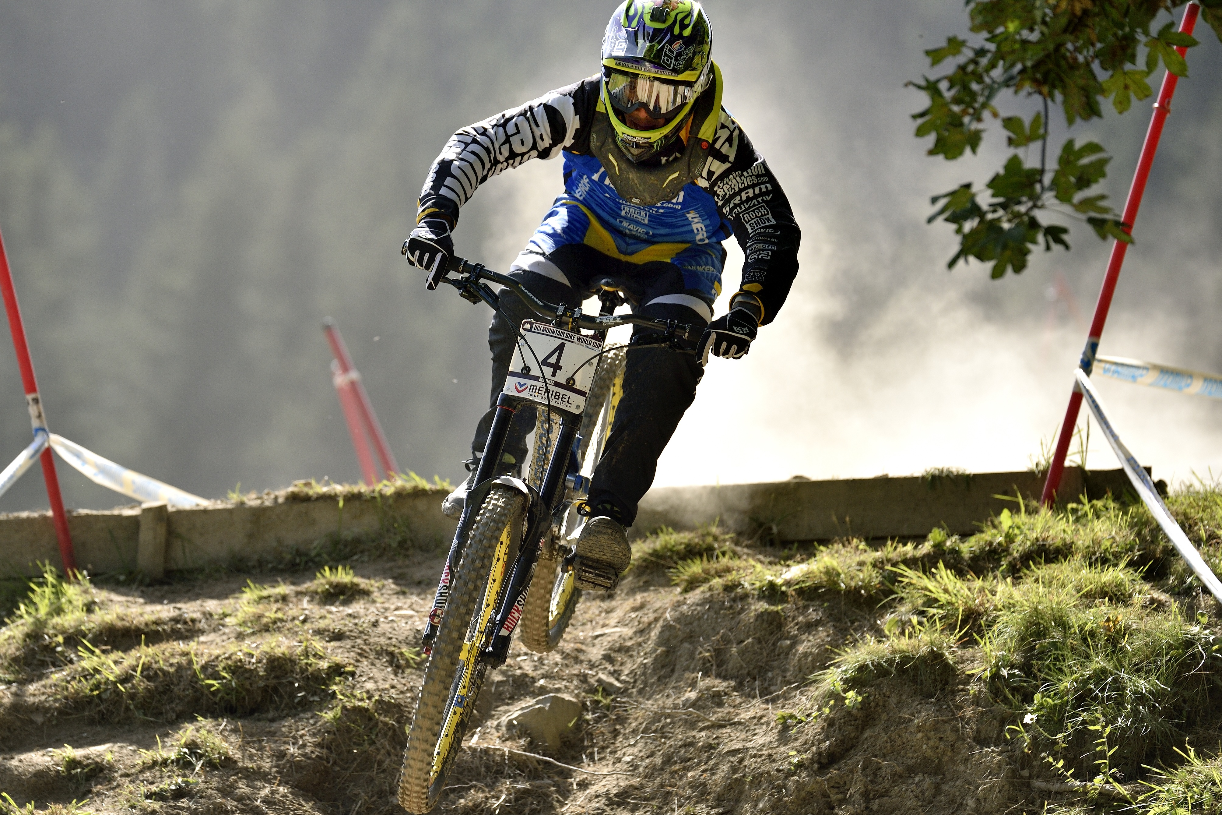 Sam Hill at the 2014 final MTB World Cup Round in Méribel (France).